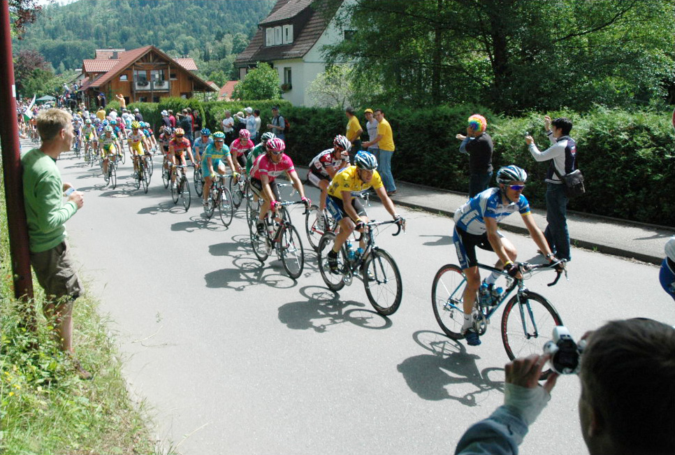 8th stage. In yellow jersey Lance Armstrong, behind him Jan Ullrich and Alexander Vinokurov.